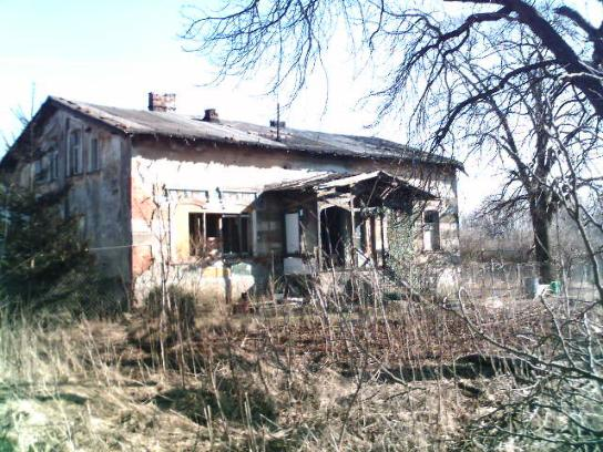 Manor in Rębowo